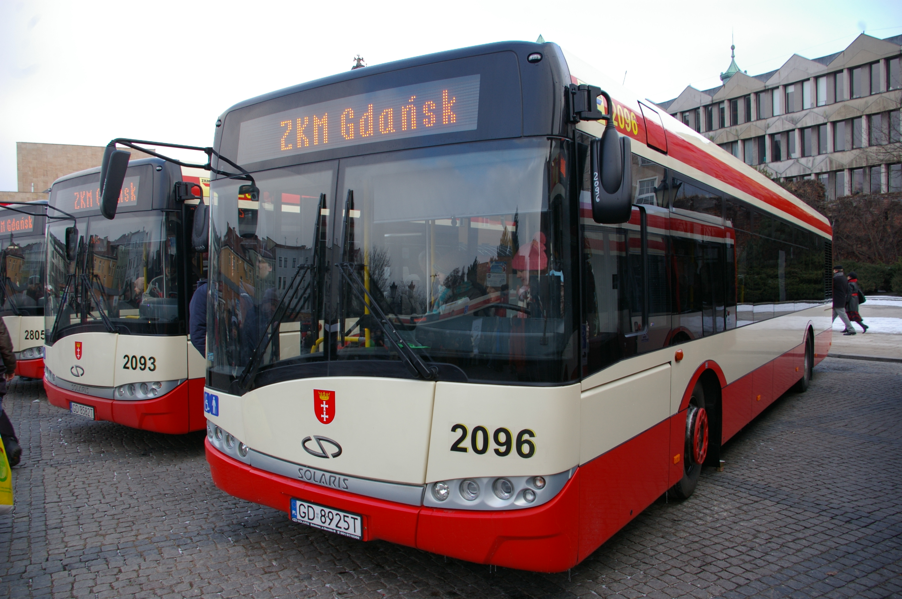 Three Solaris Urbino 12 Mk3 buses built 2008, one of Gdańsk newest buses during a public presentation. From right to left: #2096, #2093, #2805. ZMK Gdańsk operator.